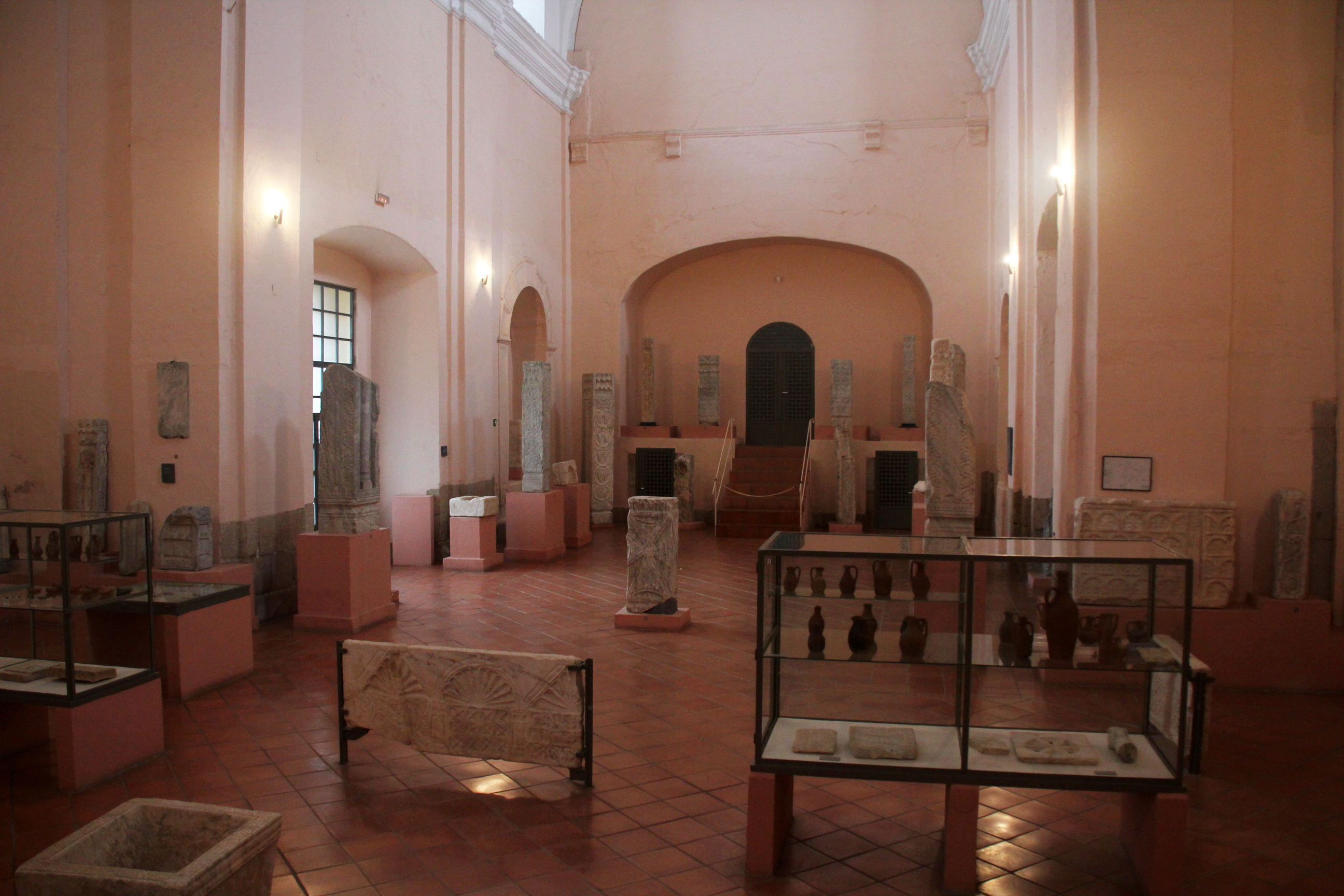 General view of the Museum of the Visigoth Art